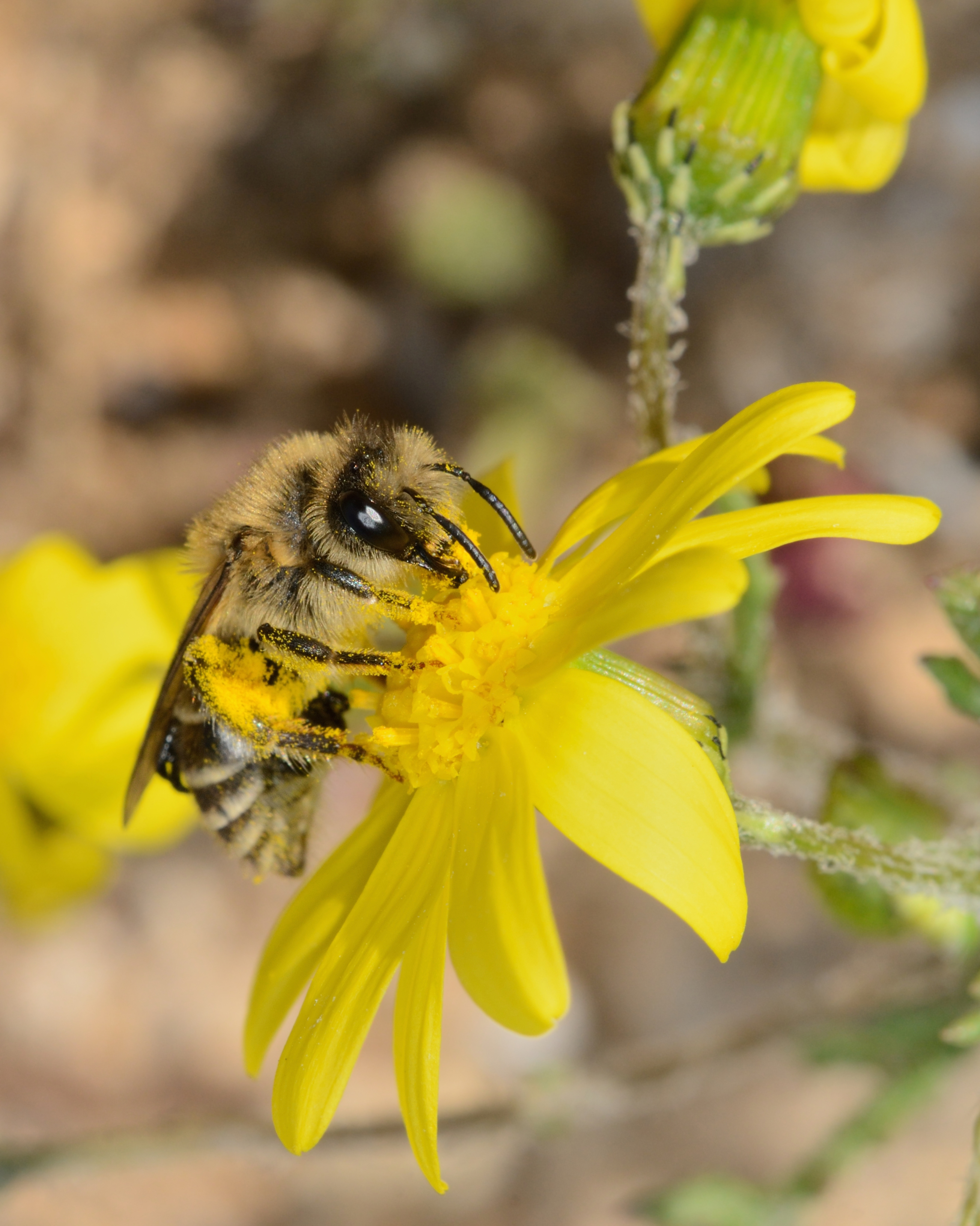 Colletes cariniger Pérez 1903, female foraging on Senecio leucanthemifolius subsp. vernalis, Nes Ziyyona, Israel, February 9, 2014.